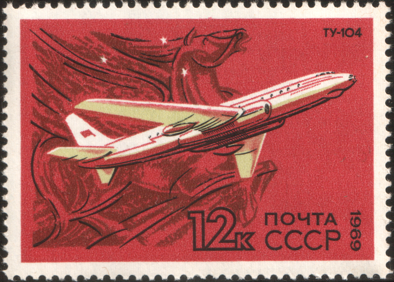 USSR stampː Airplane Tupolev Tu-104, 1955. Pegasus. Seriesː Develoment of Soviet Civil Aviation